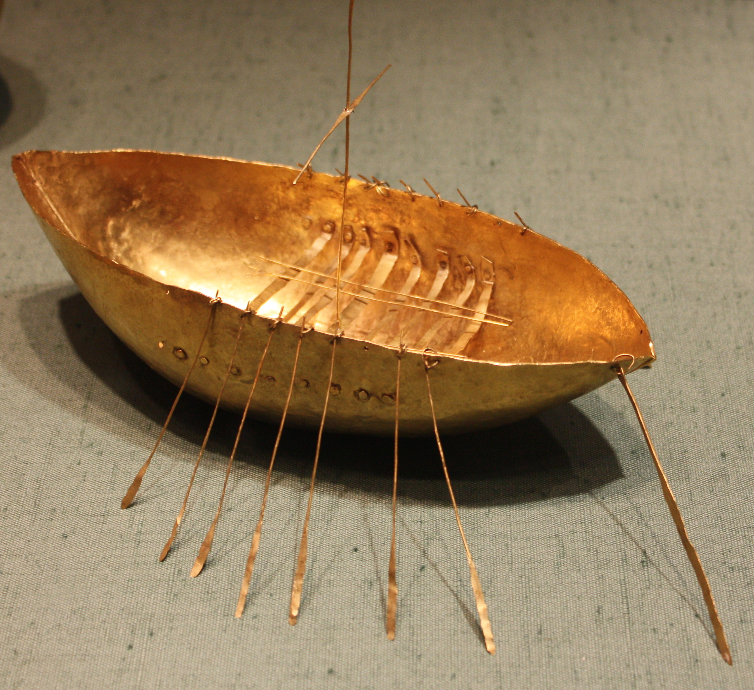 Broighter Gold, National Museum of Ireland, Kildare Street, Dublin, Republic of Ireland, October 2010